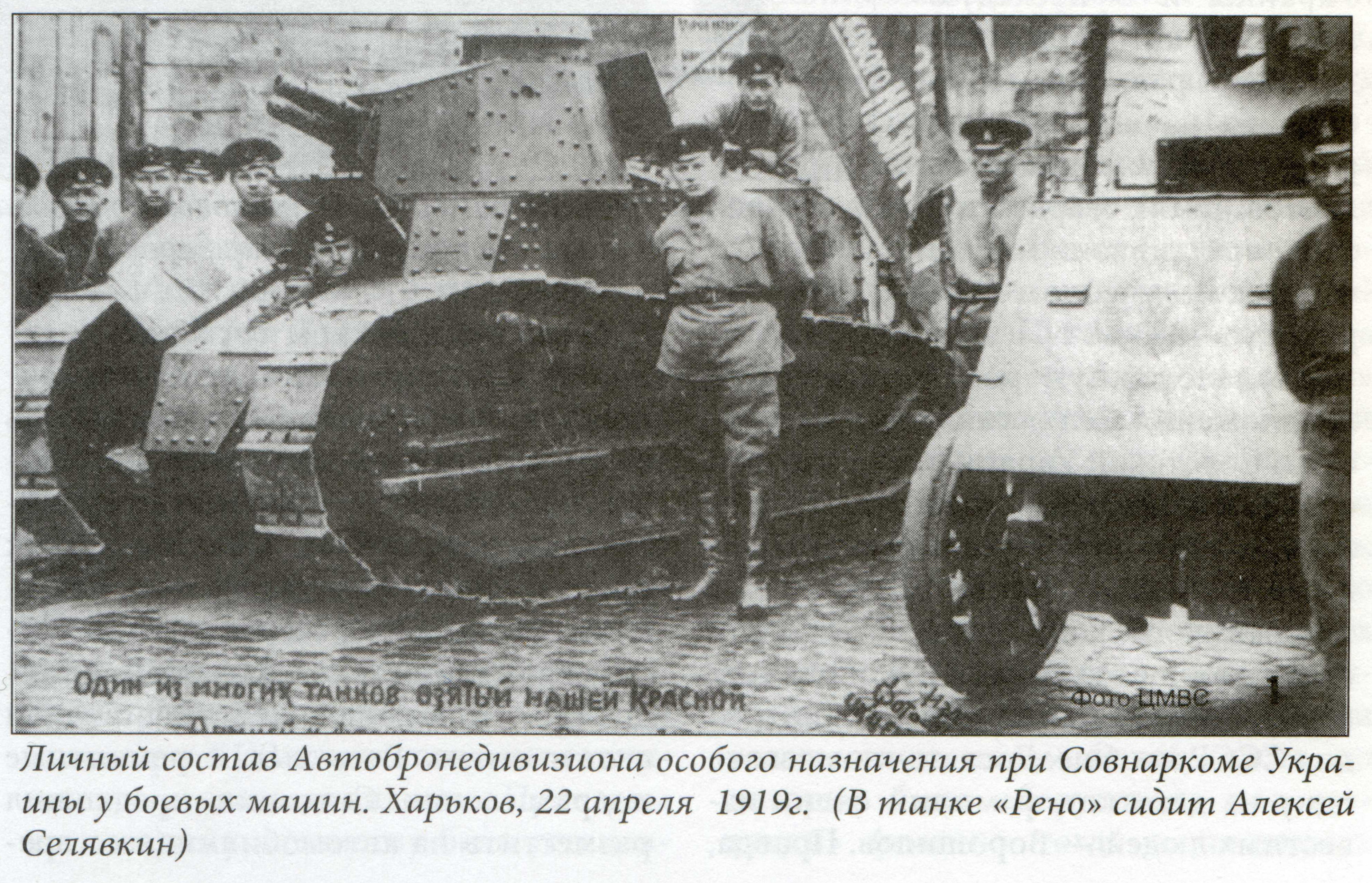 French Renault FT-17 tank in Red Army in Kharkov, april 1919.